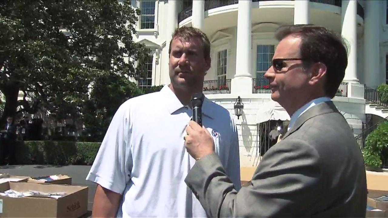 Pittsburgh Steelers quarterback Ben Roethlisberger (left) is interviewed by KDKA's Bob Pompeani during the Steelers' visit to the White House as Super Bowl XLIII champions. Screenshot taken from a White House video.